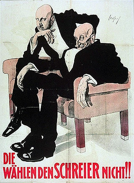 Election poster of the Democratic Party of Austria to the Austrian Constituent Assembly election.